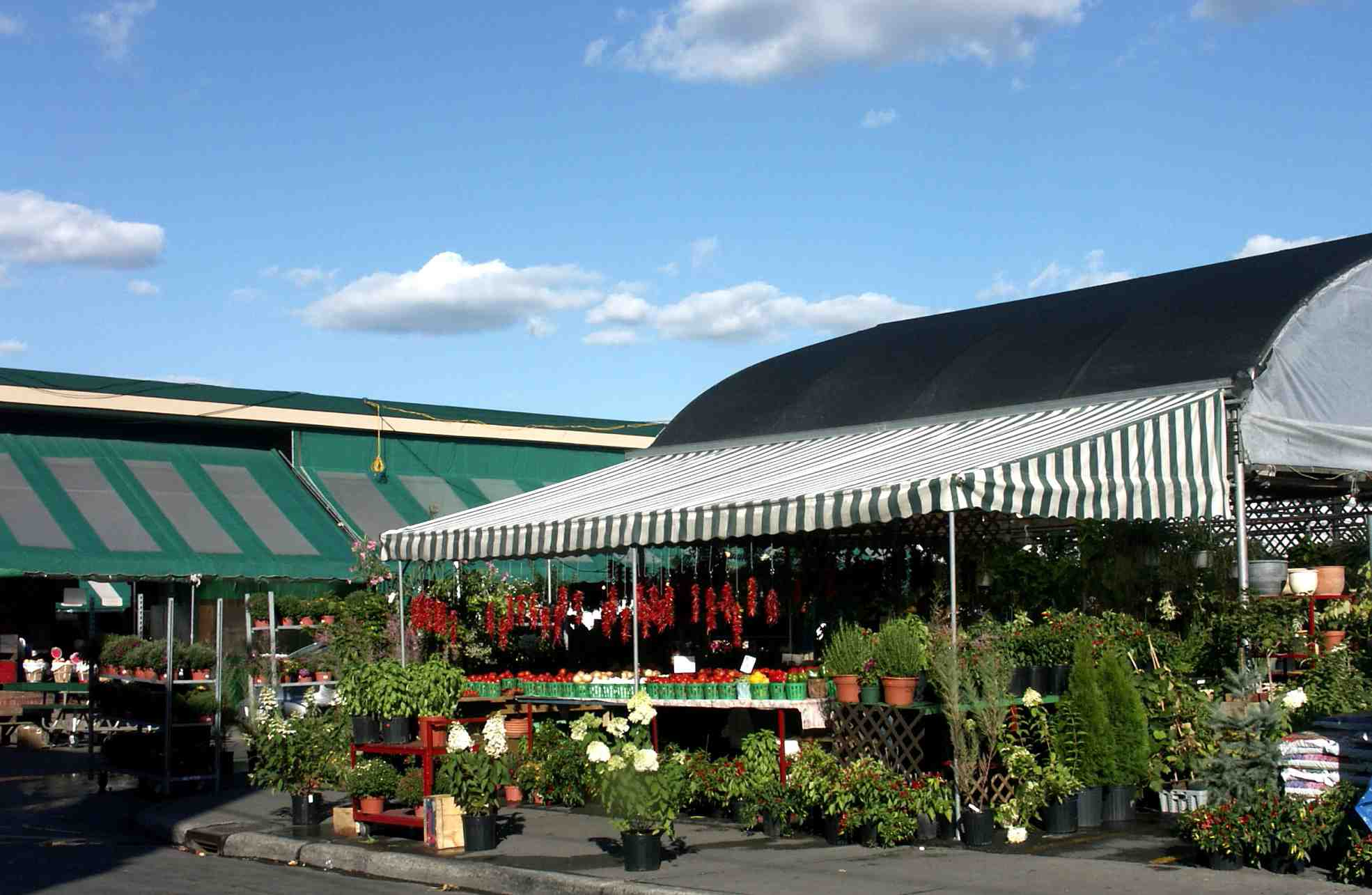 Jean-Talon public farmers' market, outside view from the north west. Photo by User:Gene.arboit